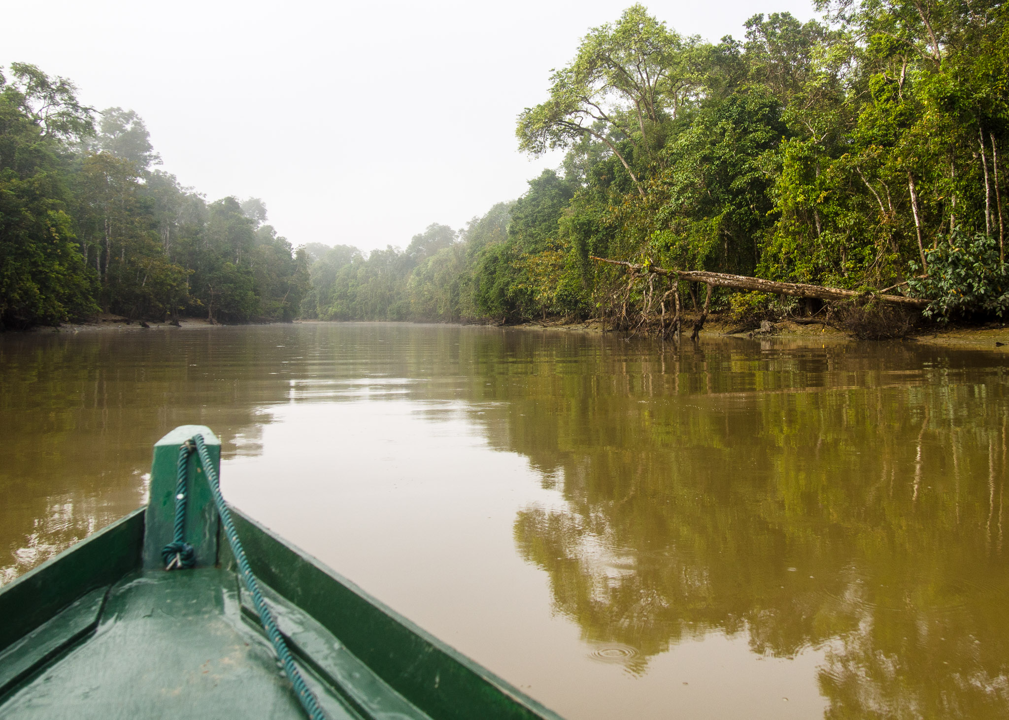 Boating down the Kinabatangan River